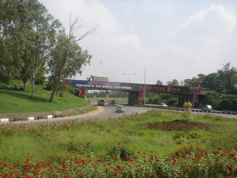 A view of a highway and an underpass in Islamabad, Pakistan.